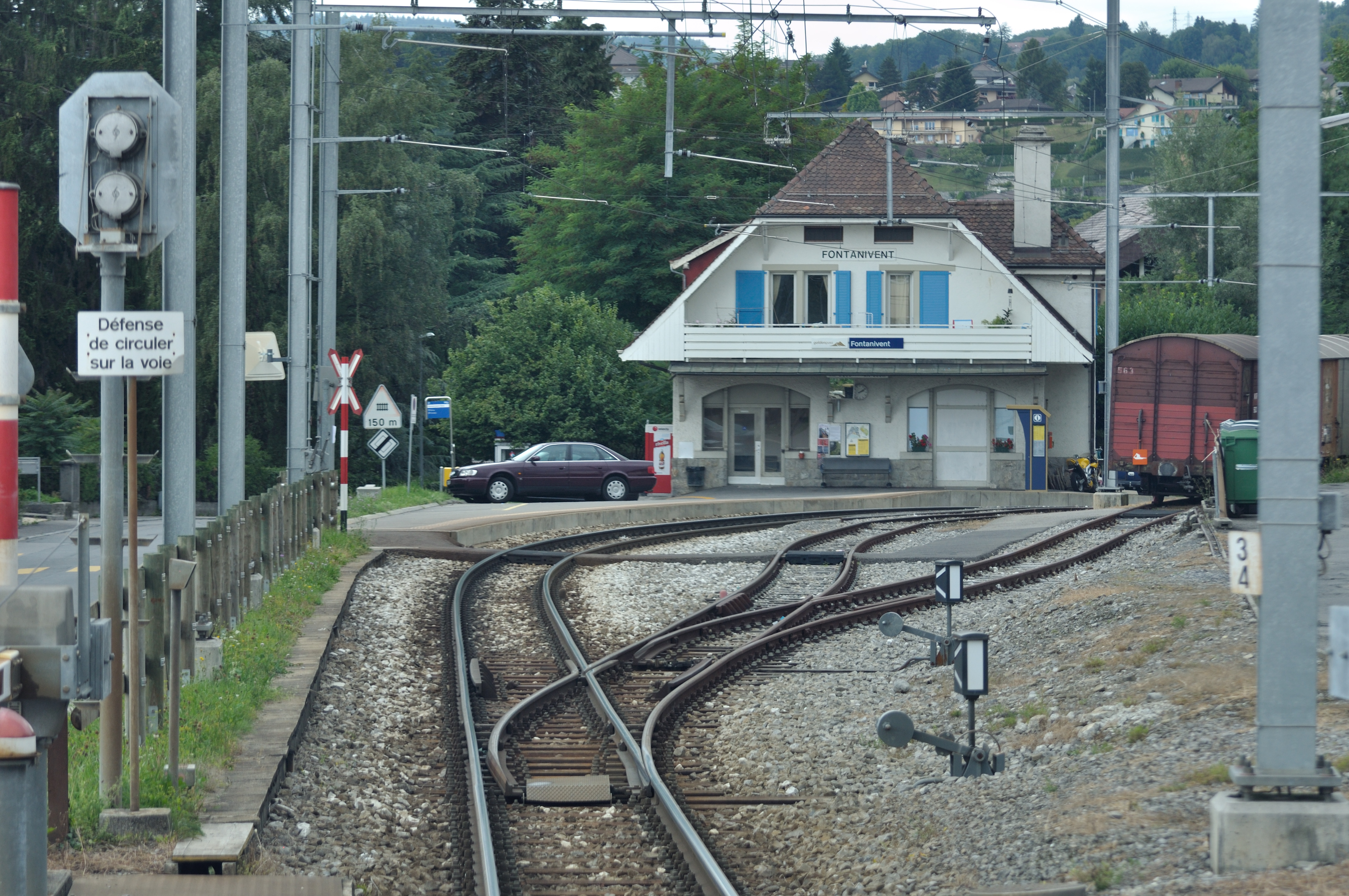 Switzerland, Vaud, impressions from the drivers cabin on the Chemin de fer Montreux Oberland bernois. For exact location see geodata.